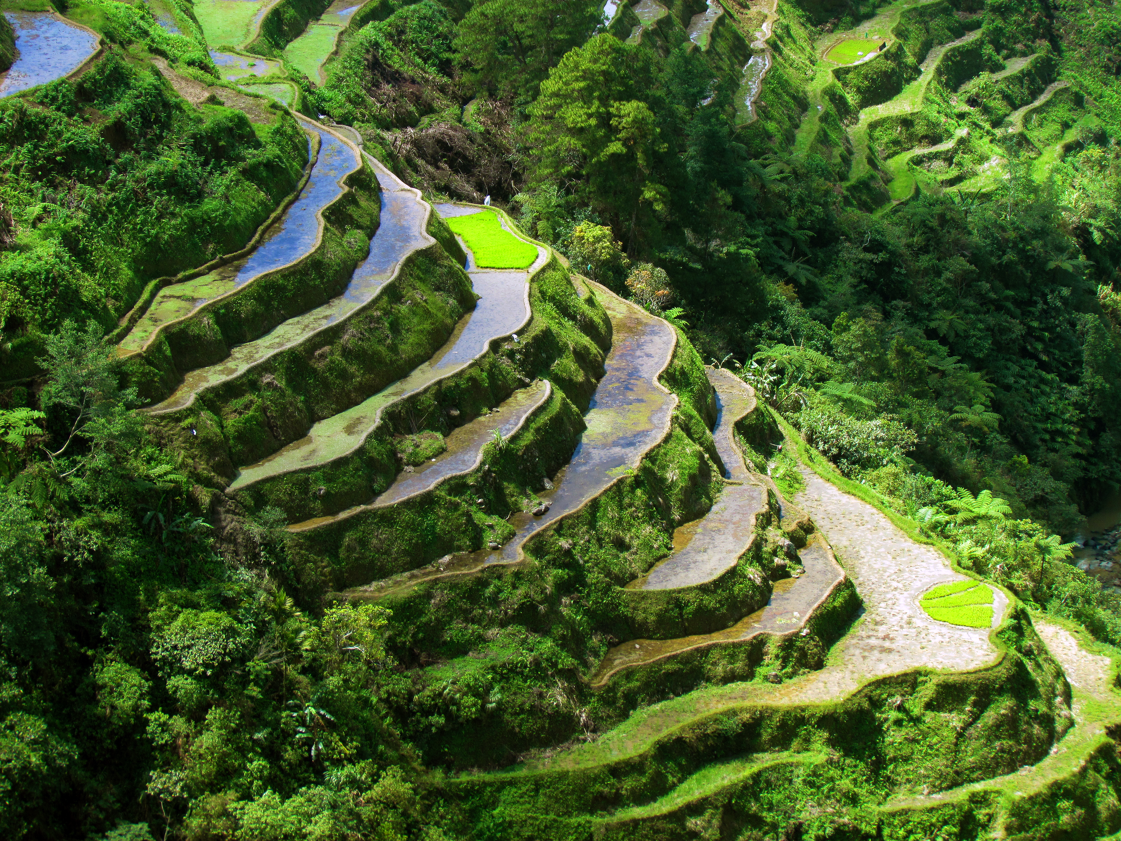 The grandeur of Banaue Rice Terraces. Photo by Jose B. Cabajar